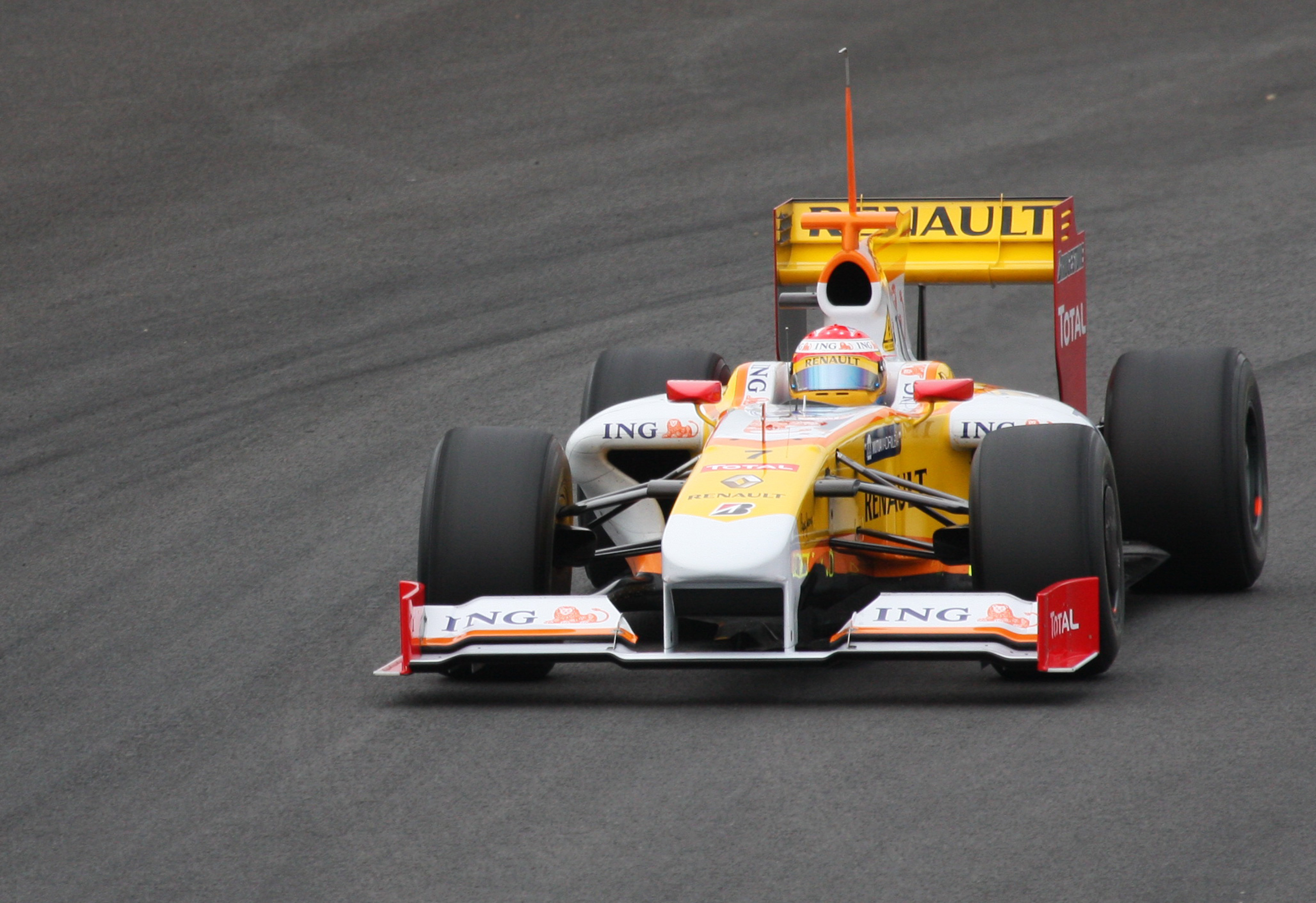 Fernando Alonso in the Renault R29, F1 testing session, Jerez 04-Mar-2009